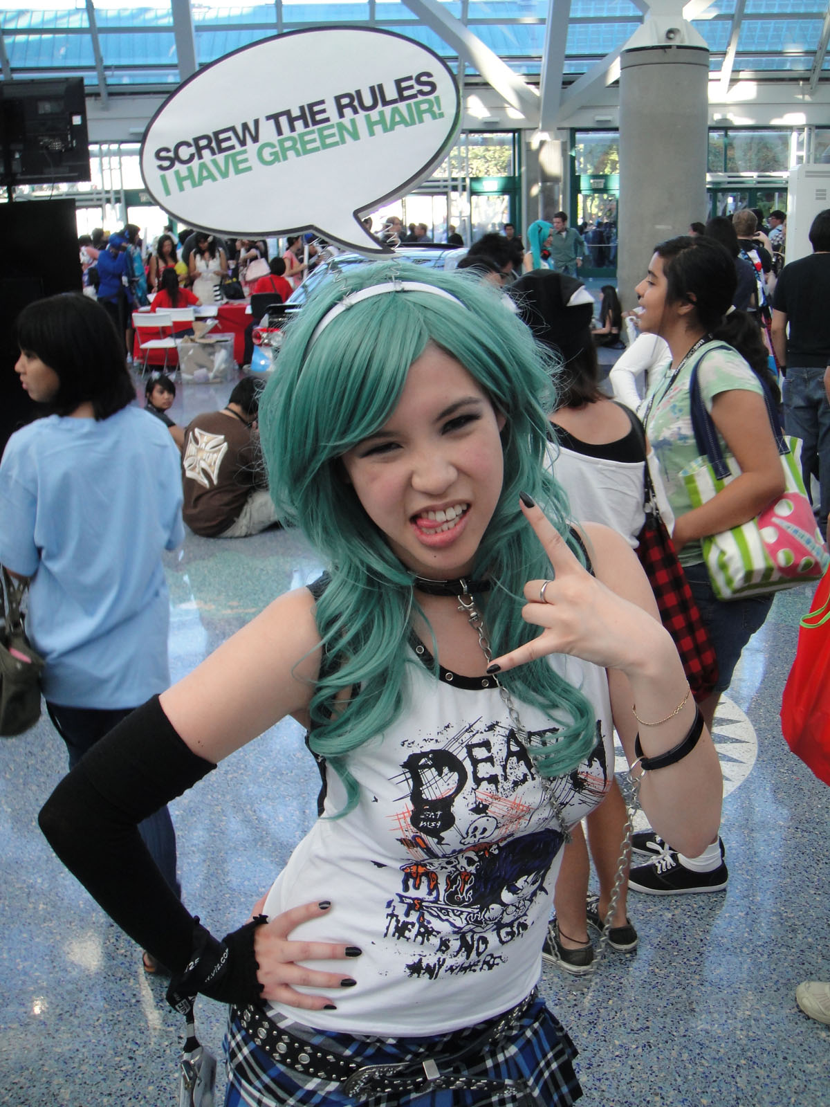 photo 2011 taken by Doug Kline If you're interested in higher resolution versions of my images, contact me via my profile page.